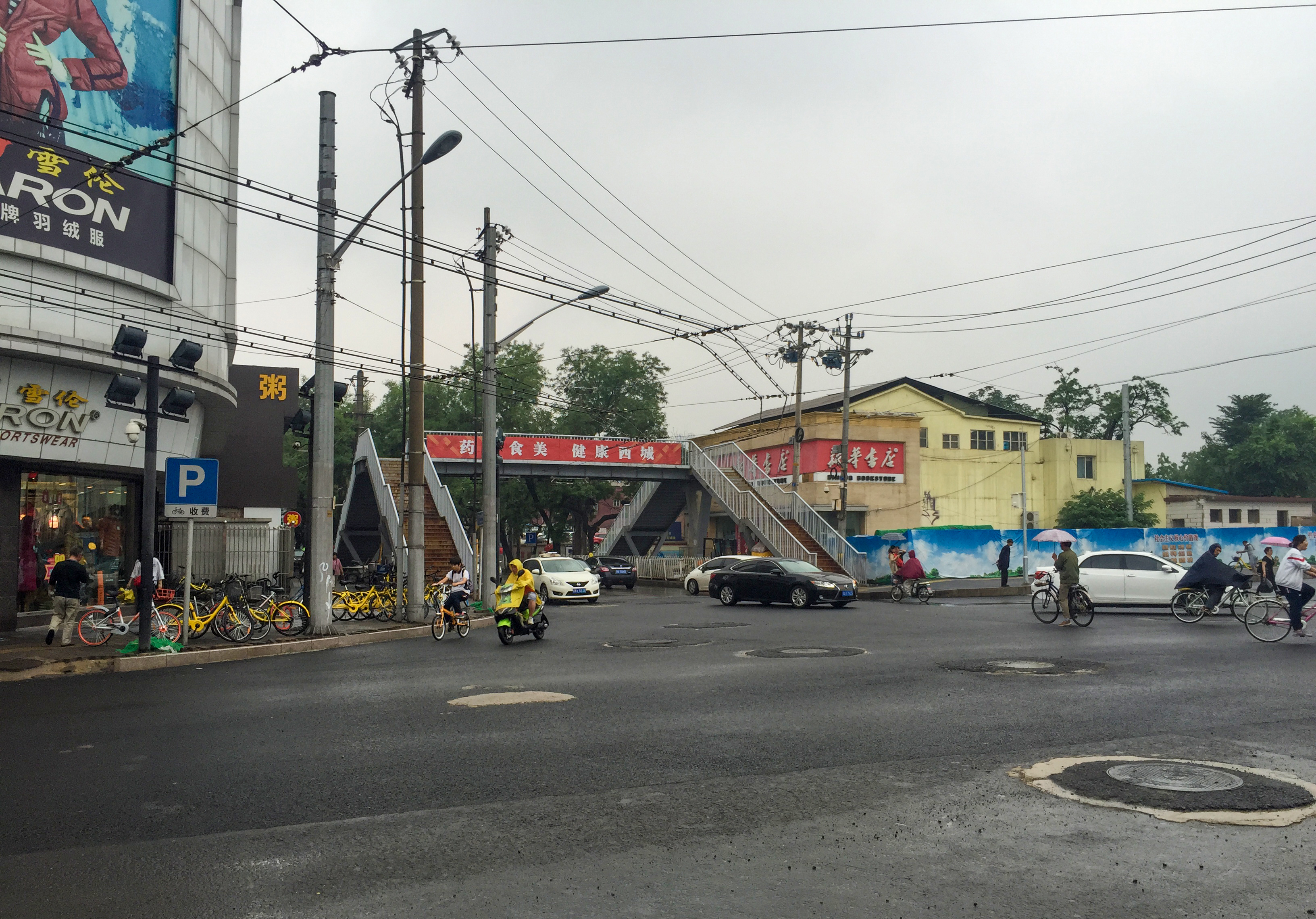 Iconic T-crossing in Xicheng, especially when you ride 105, 111 or 808...